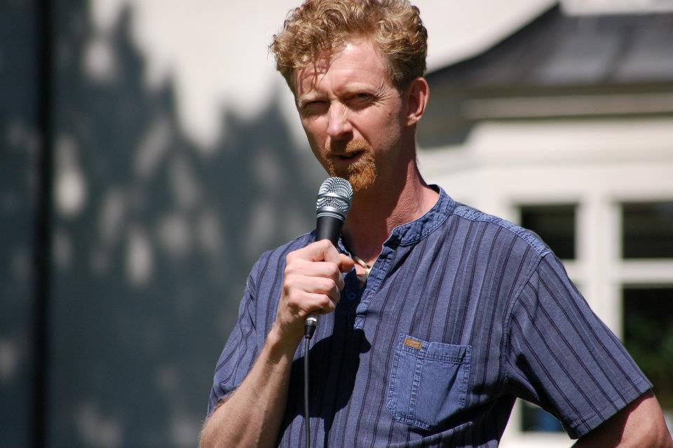 Speech at Bommersviks about the Utöya attack